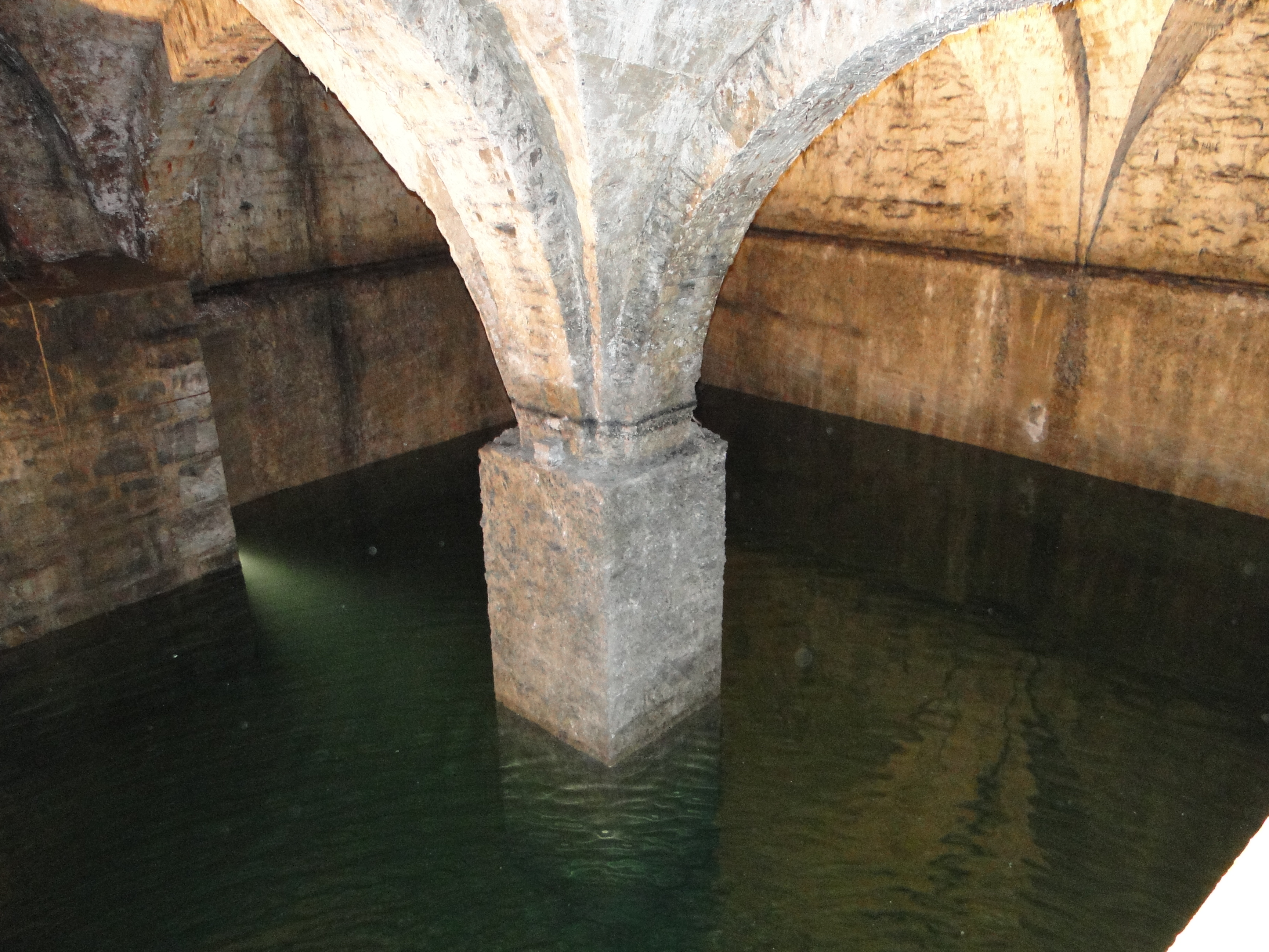 Lantro Fountain, Bergamo, Italy